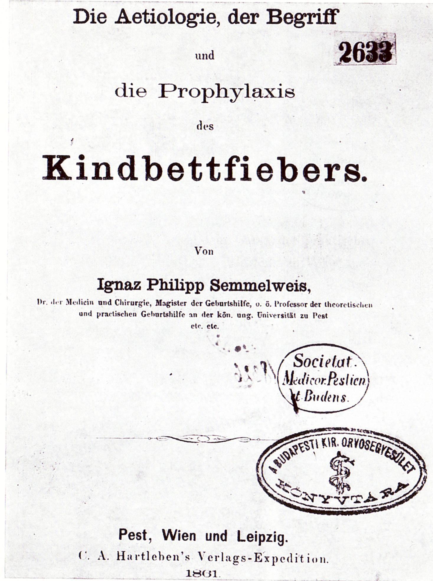 Front page of the first edition of the main work of Ignaz Semmelweis Die Ätiologie, der Begriff und die Prophylaxis des Kindbettfiebers – 1861; published by the end of 1860 but issued with printed year 1861.